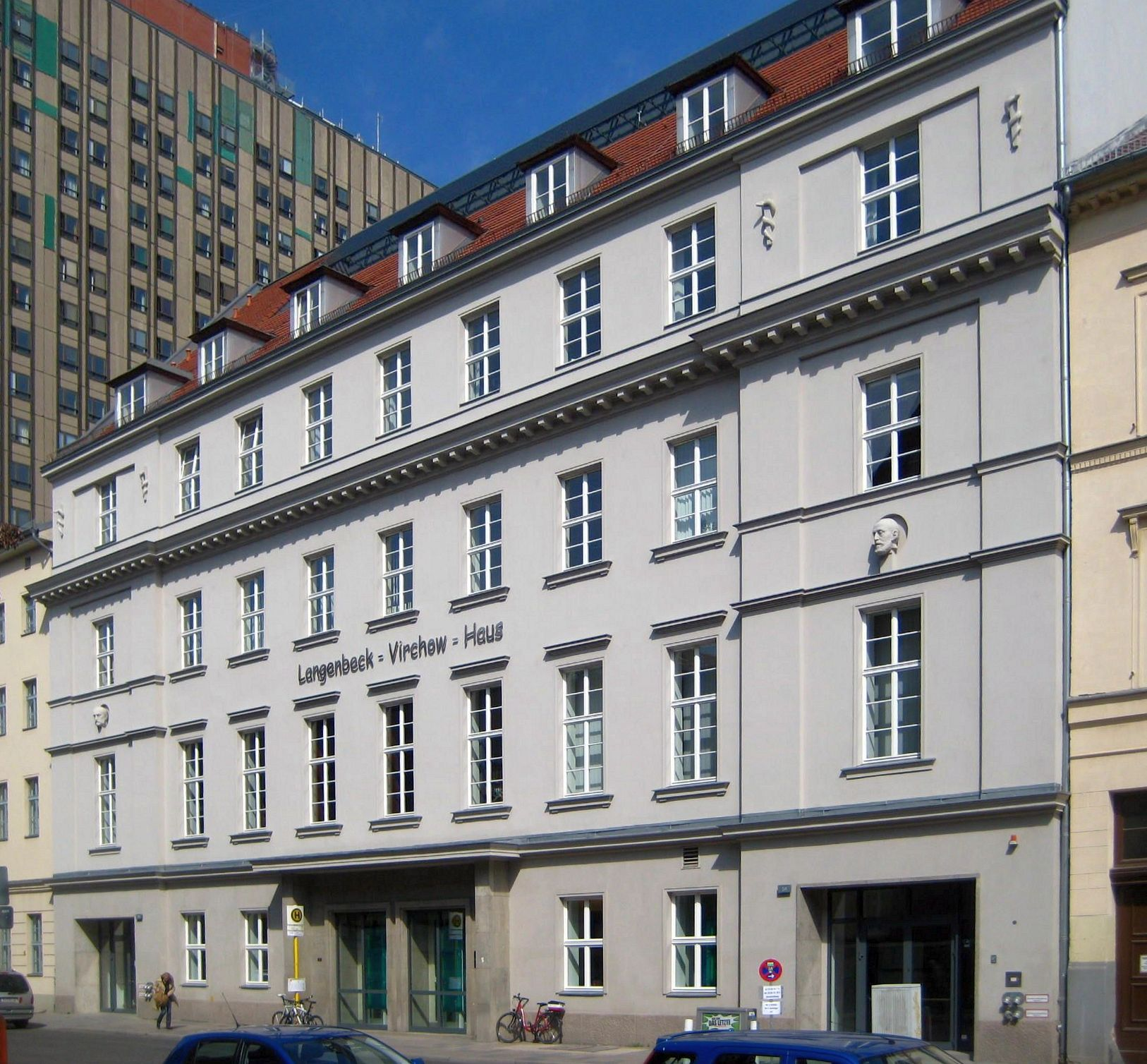 The Langebeck-Virchow-Haus at Luisenstraße No. 58-59 in Berlin-Mitte. The building was constructed from 1914 to 1915 to a design by Hermann Dernburg. It was seat of the German Society of Surgery and the Berlin Medical Society (now again owerns of the building). From 1950 to 1976, the Langenbeck-Virchow-Haus was seat of the Volkskammer, the East German parliament. The building has been designated as a historic landmark.